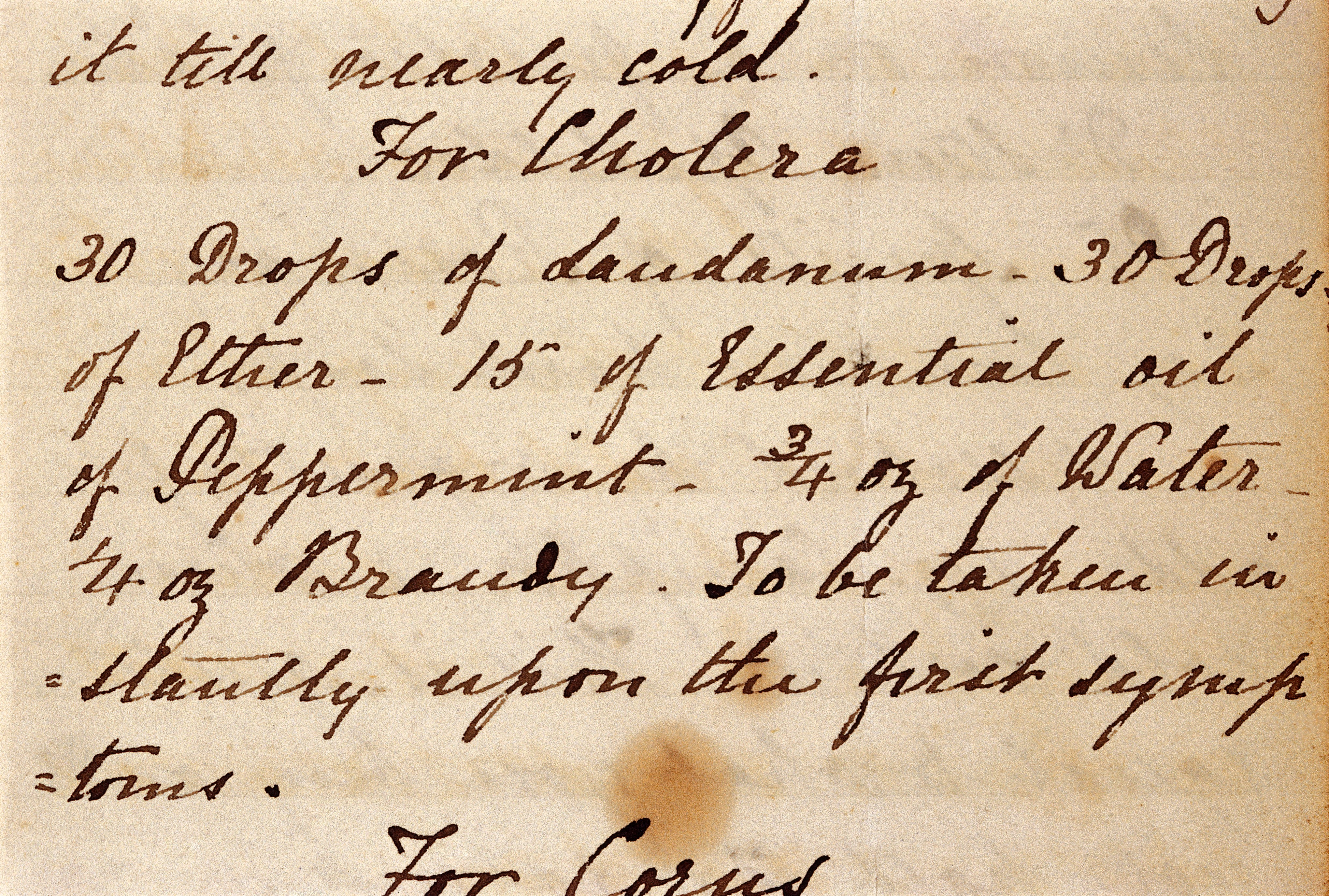 CMAC: Western Manuscript 3339 Receipt Book - Mary Susan Selby-Laundes (?) Remedy for cholera: '30 drops of laudanum...' circa 1850s Archives & Manuscripts Keywords: Cholera; remedy; cmac: wms 3339; selby-laundes, mary susan; receipt book